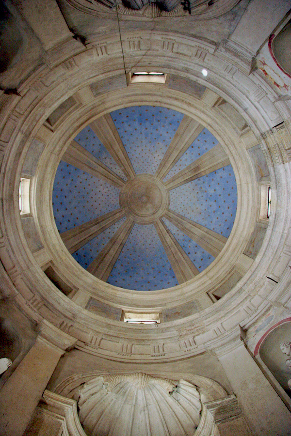 Interior of Tempietto by Bramante in San Pietro in Montorio (Rome). Dome.